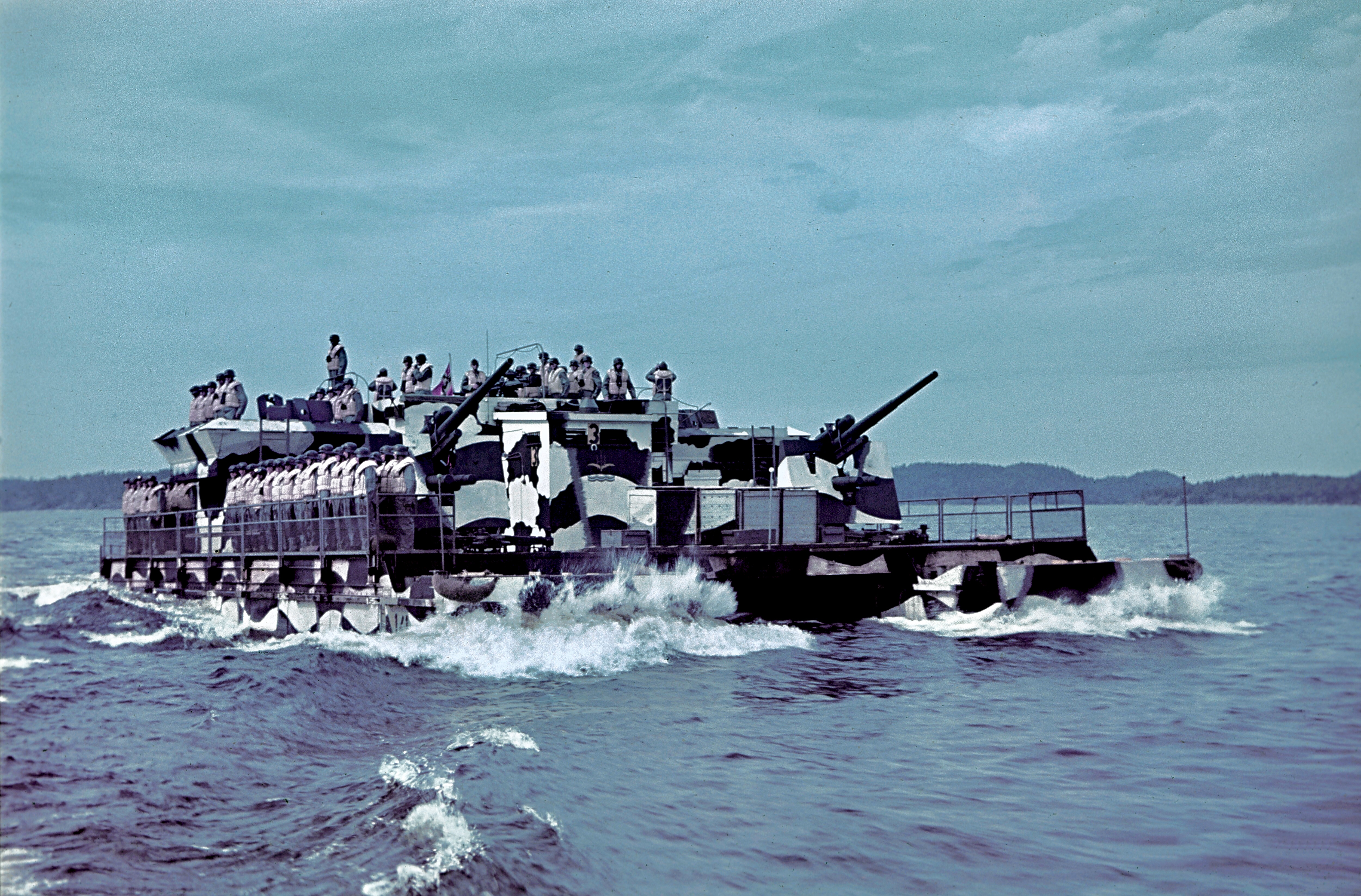 Luftwaffe (Einsatzstab Fähre Ost) heavy duty Siebel ferry (143 tonnes) at Lahdenpohja.